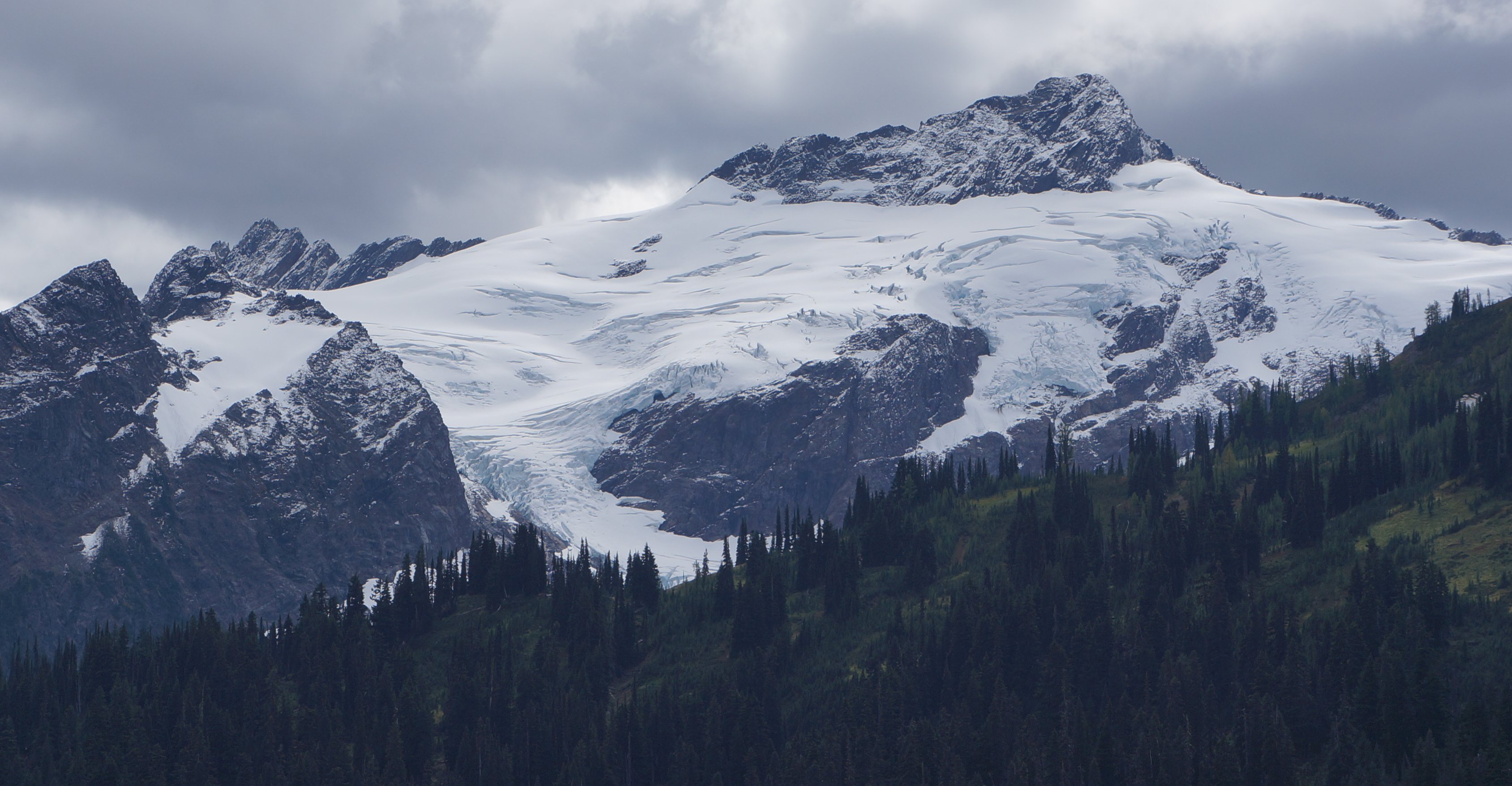 Clark Mountain in the Glacier Peak Wilderness of WA